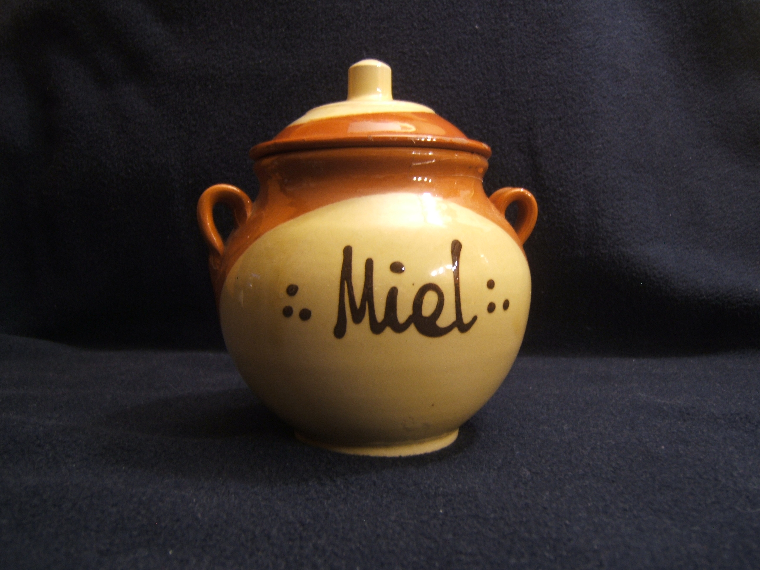 Honey pot